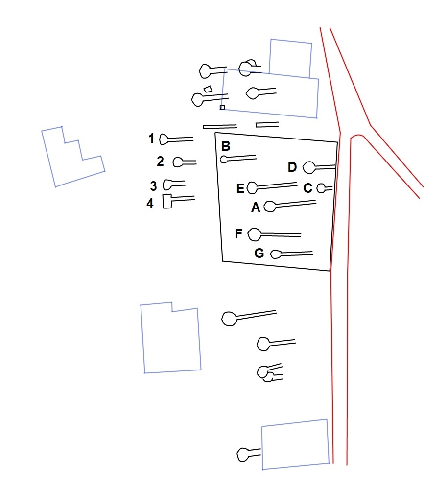 Plan of the mycenaean cemetery of Paleo Epidavros:Blue: Modern housesRed: Street Odos IppokratousBlack: Chamber tombsA-G: Excavated by Valerios Stais in 18881–4: Excavated in 1994.Except these tombs there are two to the east and several others to the south.